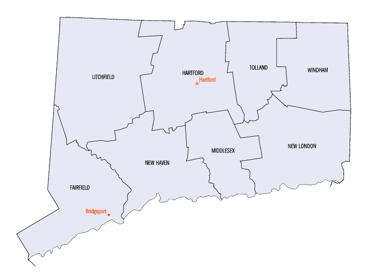 The image was downloaded from en.wiki (Image:Connecticut-counties-map.gif) under the PD-USGov license tag. Wars 05:30, 12 September 2006 (UTC)